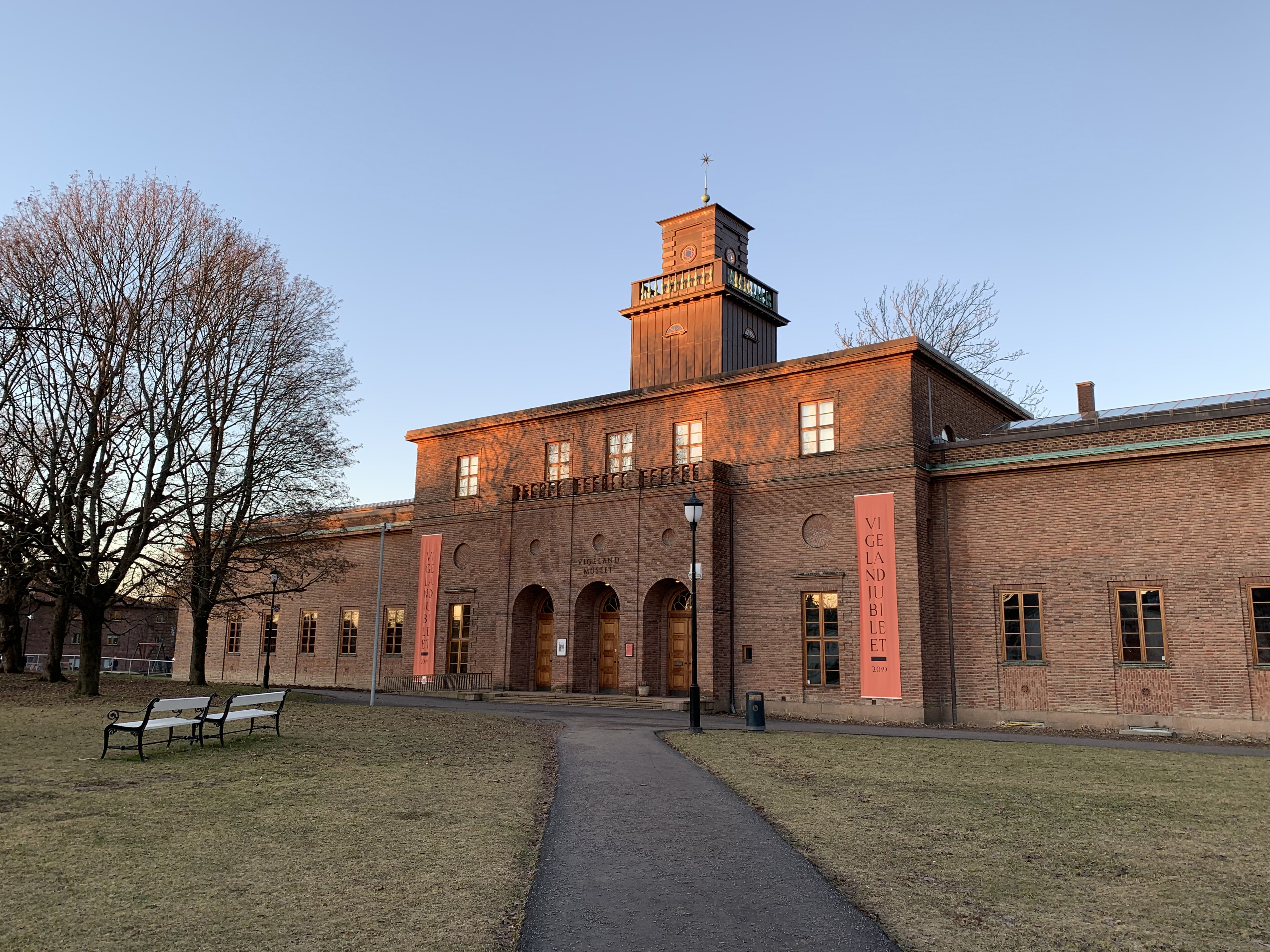 The Vigeland Museum, Gustav Vigeland (1869-1943). His home and studio. Now a public museum.